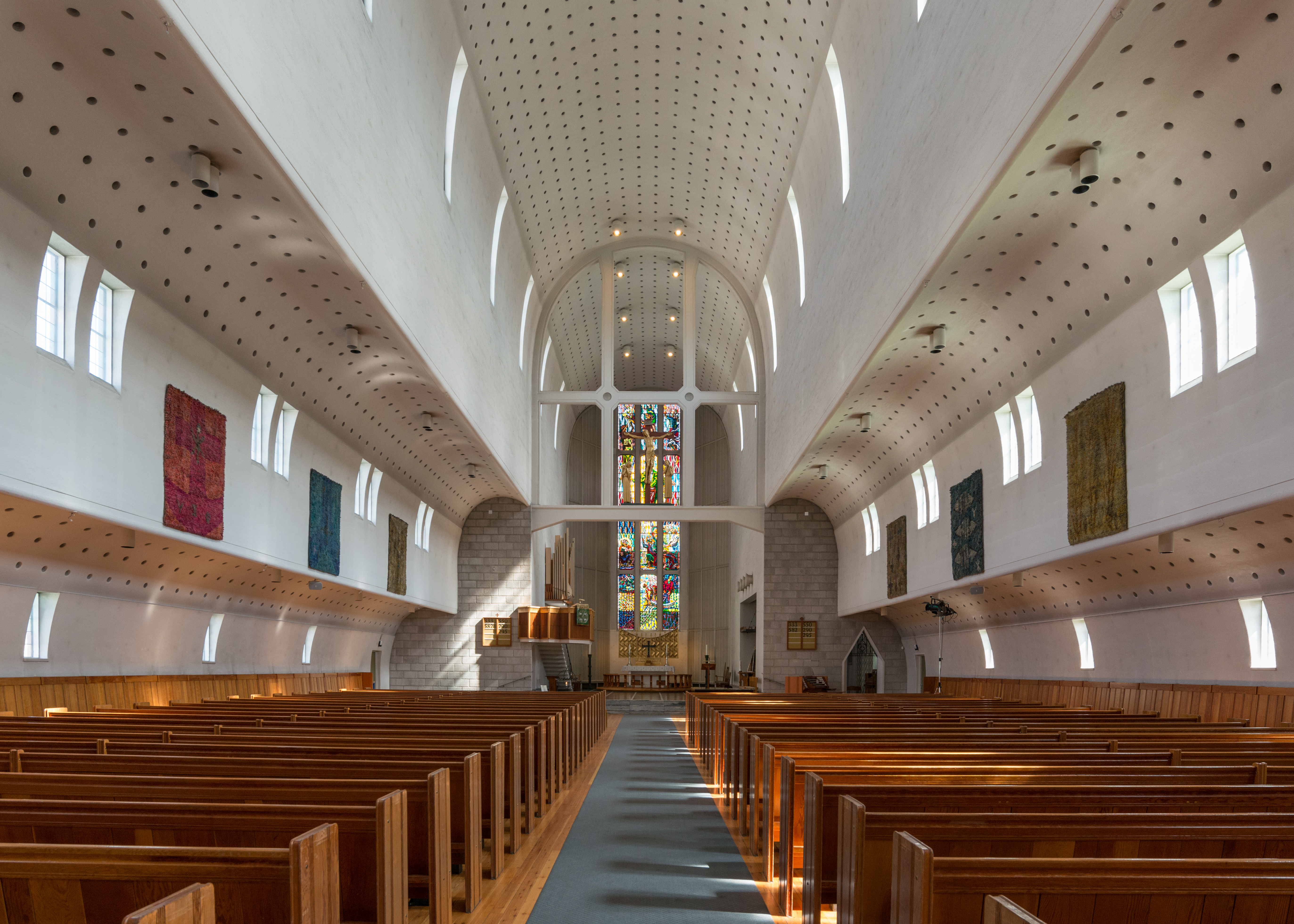 The nave of Bodø Cathedral